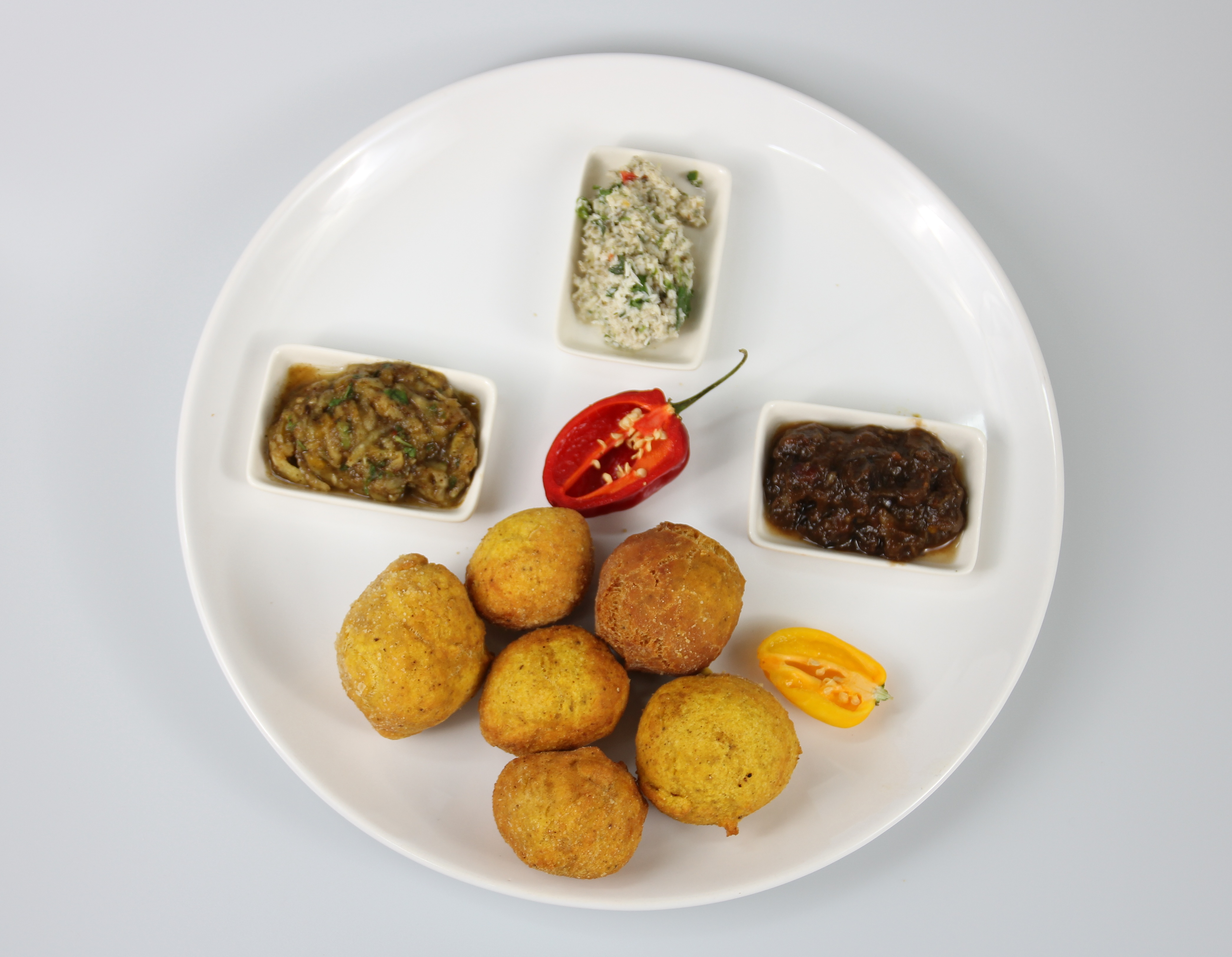 Pholourie with (from left) mango, coconut and tamarind chutneys